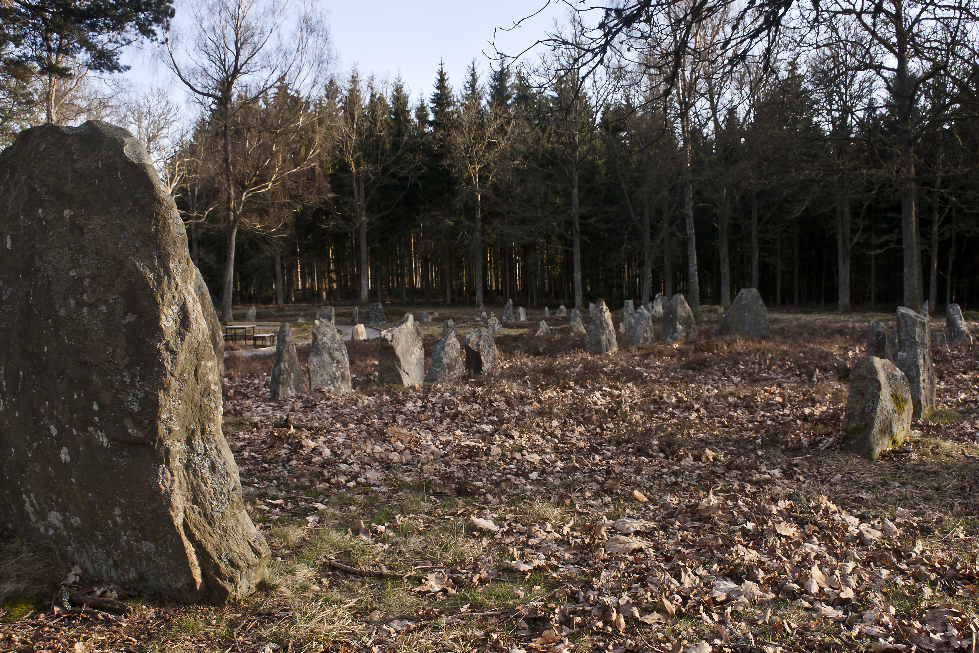 Mala stenar in Hässleholm Municipality, Sweden, is an area with six stone ships from the iron age.